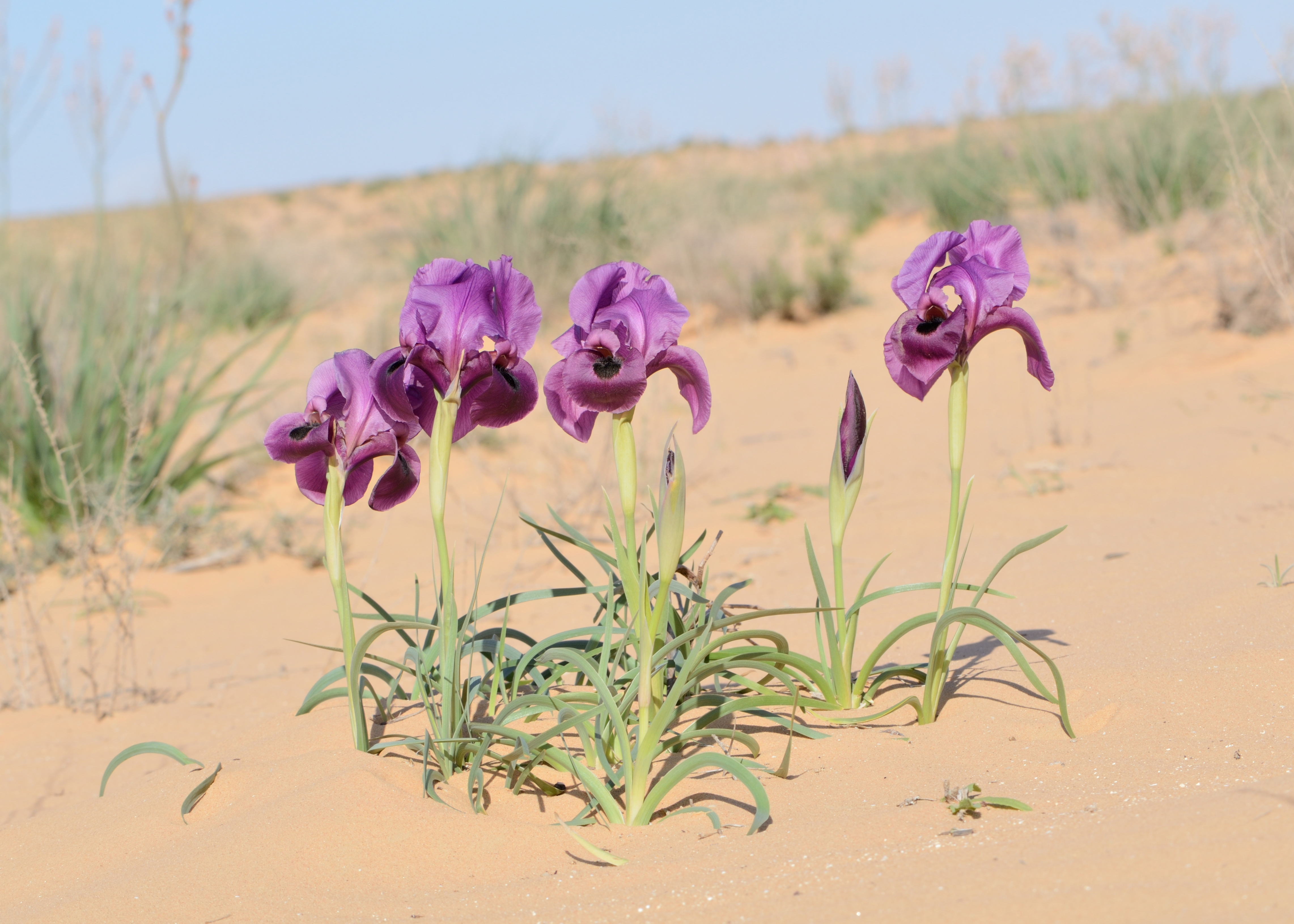 Iris mariae Barbey, Northern Negev, Israel, March 10, 2013.